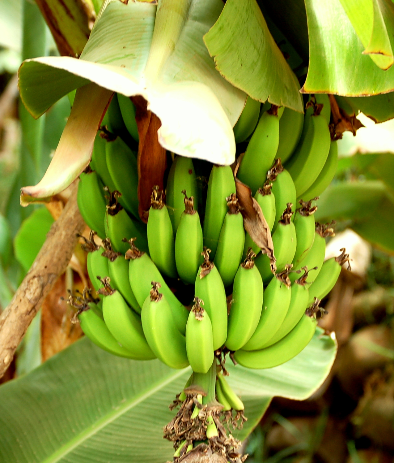 Bananas from plantation in Morocco.